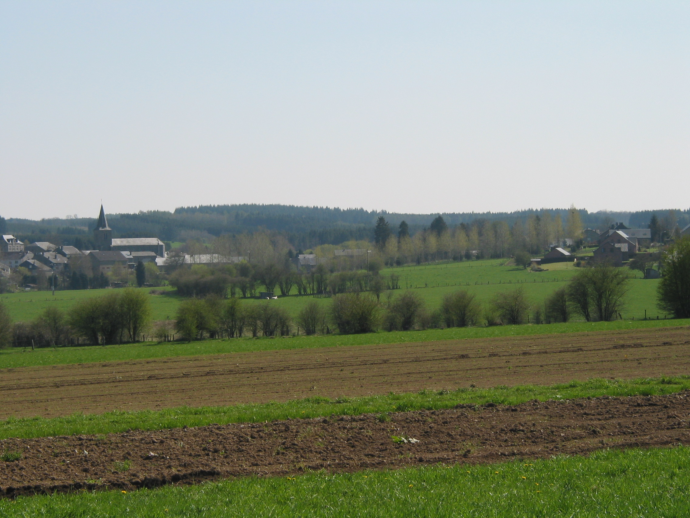 Bièvre (Belgium), the village in spring.